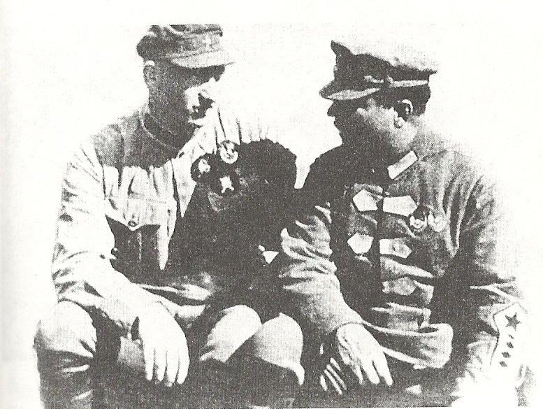 Two friends: Mikhail Efremov and Kliment Voroshilov